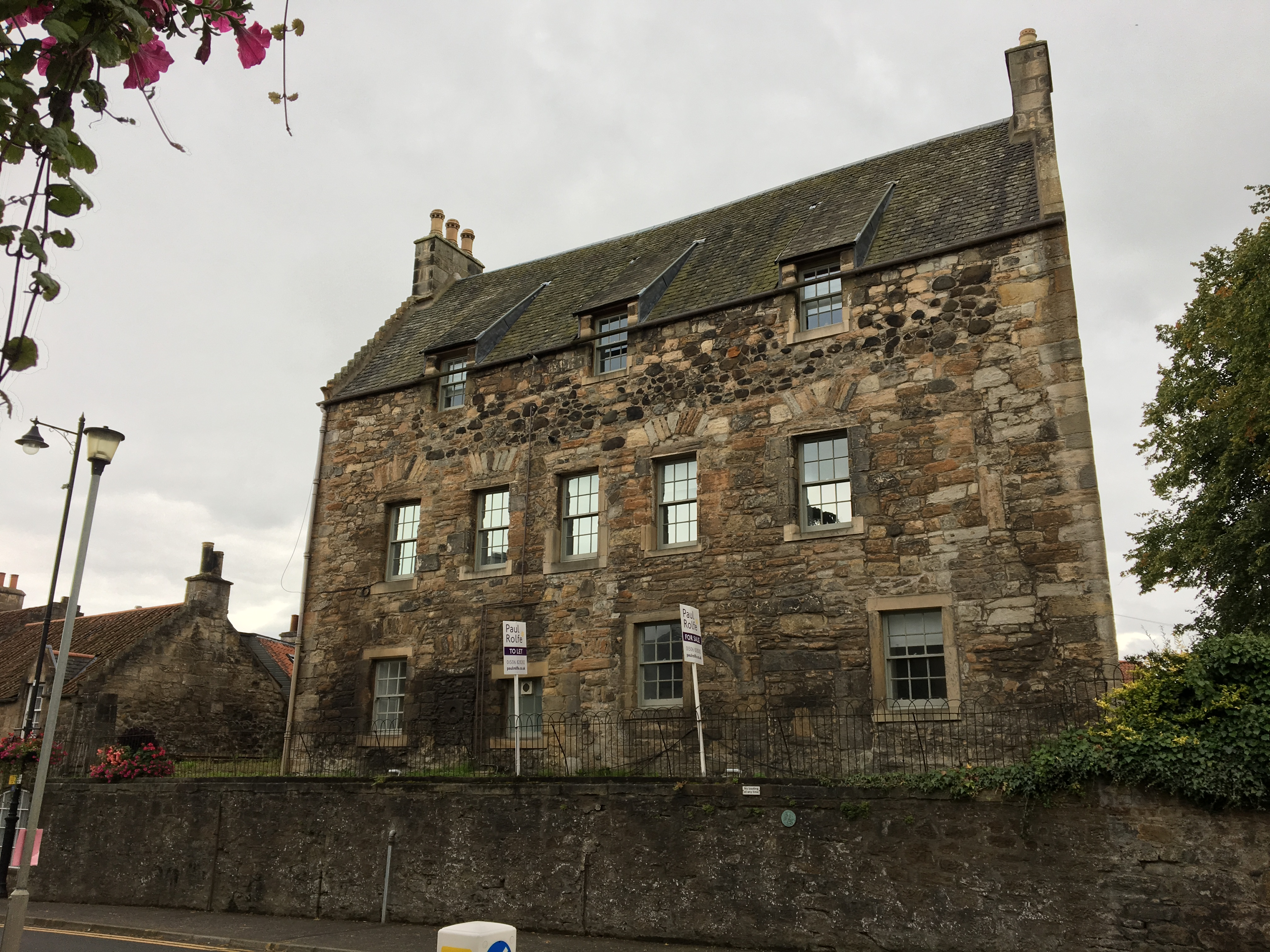 Linlithgow, 297-299 High Street, West Port House Wikidata has entry Q17569365 with data related to this item.